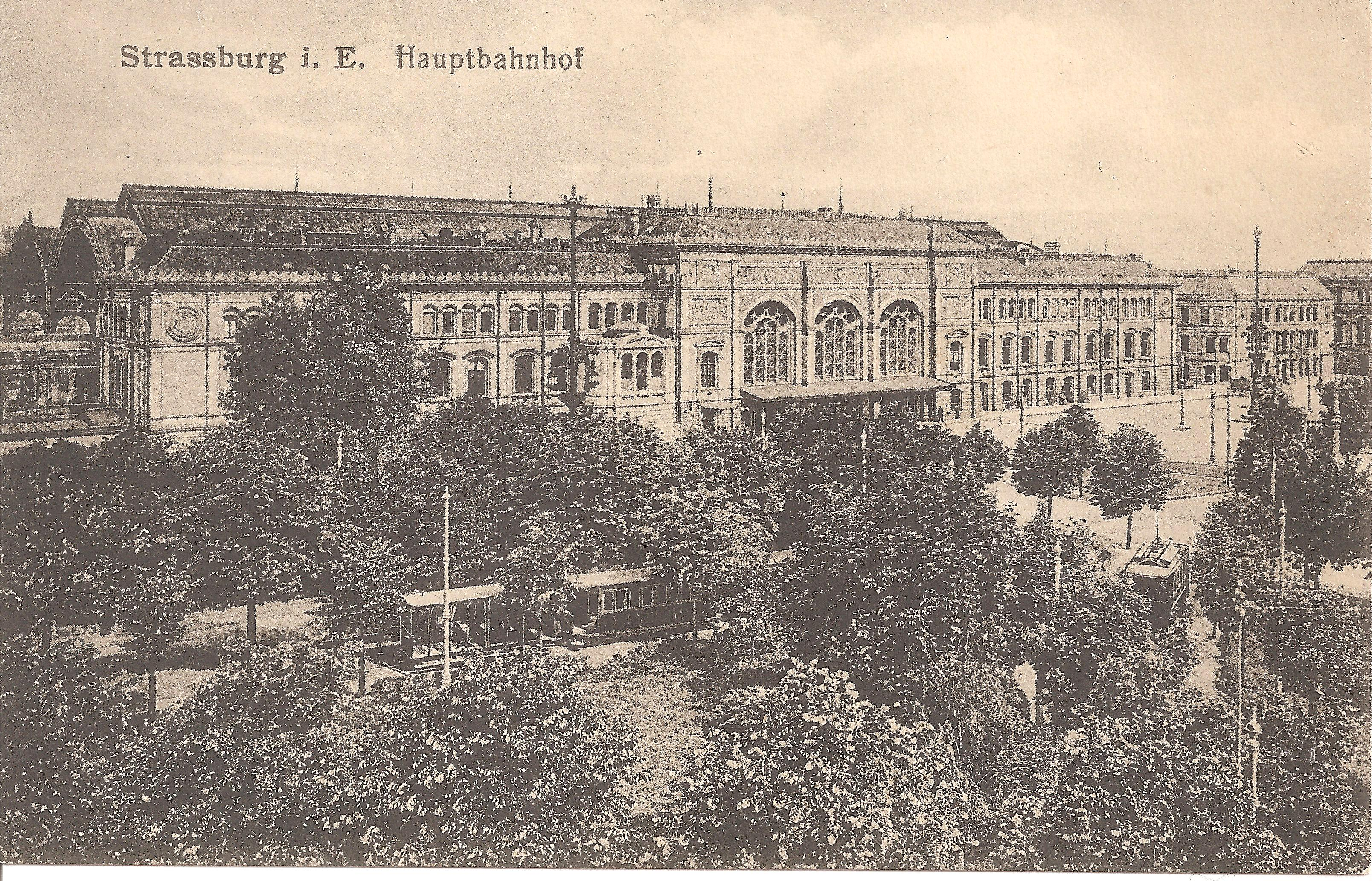 Strasbourg Railway Station around 1910 (postcard)